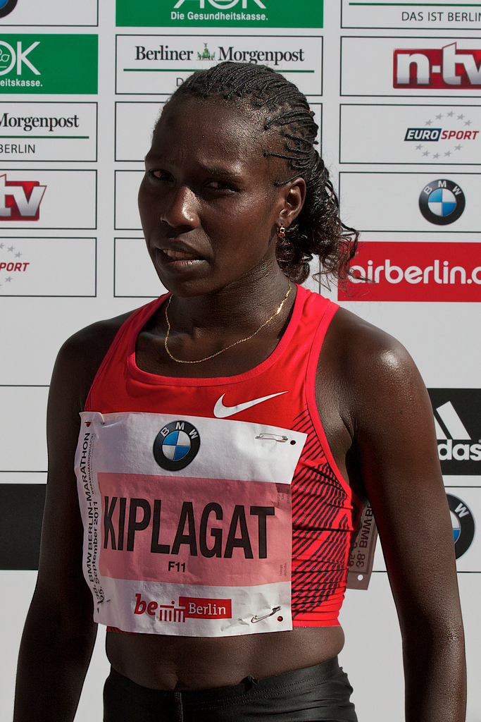 Florence Kiplagat moments after winning the Berlin Marathon 2011 in 2:19:44.